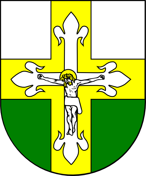 Coat of arms (shield only) of Stanislav Zela, auxiliary bishop of Olomouc, Czech Republic (1941 - 1969?).